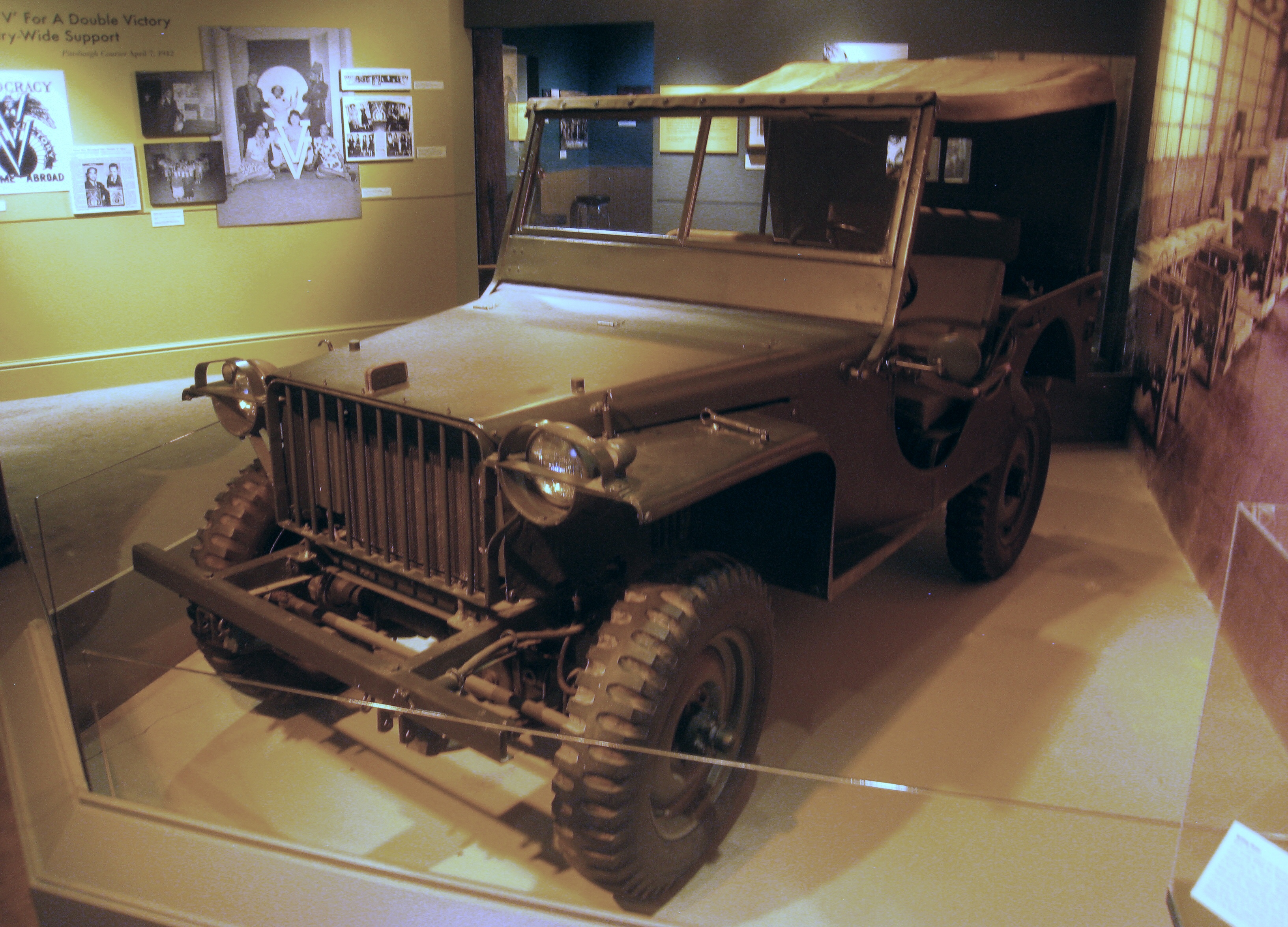 Bantam Reconaissance Car, BRC-40, circa 1941; the original Jeep manufactured by the American Bantam Car Company. Exhibit in the Senator John Heinz History Center, 1212 Smallman Street, Pittsburgh, Pennsylvania, USA. There were no restrictions on photography in the museum collections.